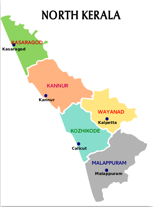 North Kerala is a region in Kerala that includes the districts of Kasaragod, Kannur, Wayanad, Kozhikode & Malappuram.